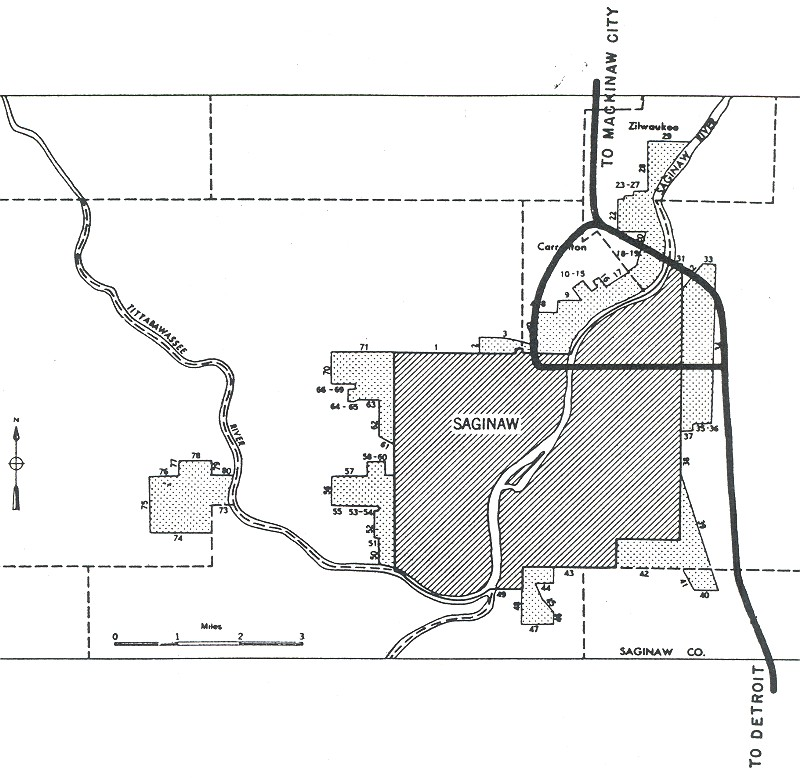 City map from the 1955 "Yellow Book" of Interstate Highway System plans, Interstates in today's terms I-75 I-675